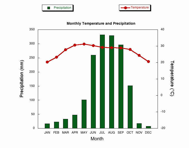 Climatograph of Calcutta